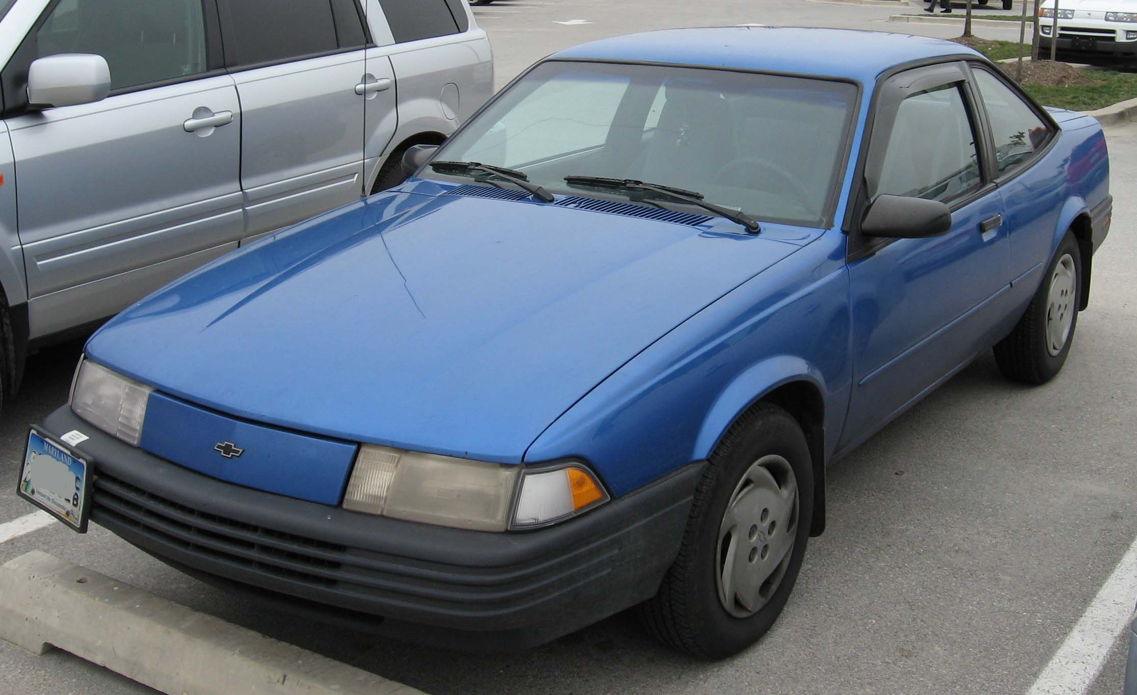 1991-1994 Chevrolet Cavalier photographed in USA.